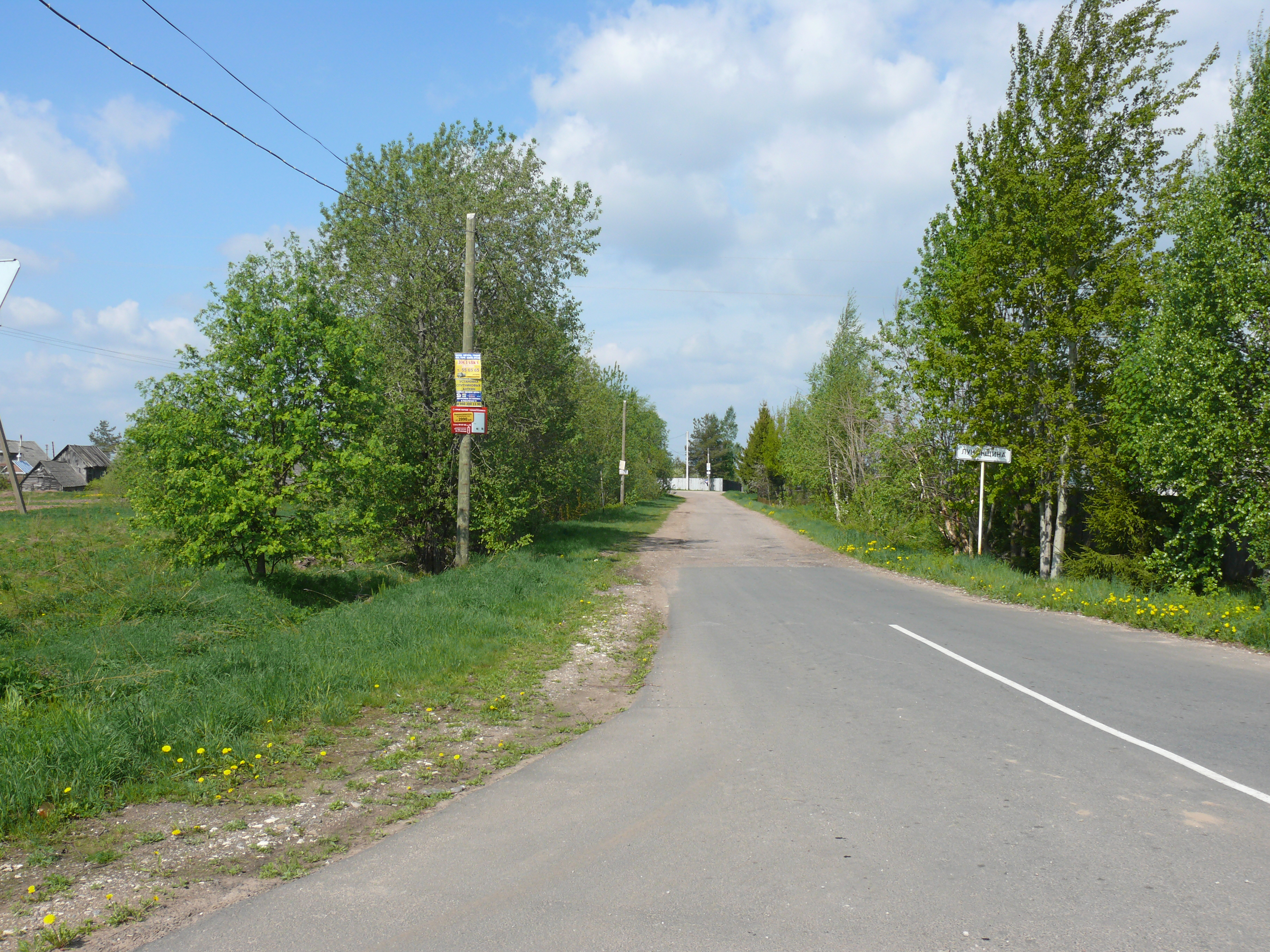 Enter in Lukinshina village. Novgorodsky district, Novgorod oblast, Russia